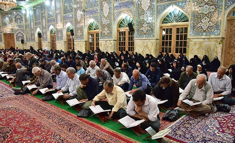 Ramadan 1439 AH, Qur'an reading at Razavi Mosque, Isfahan - 27 May 2018. main album